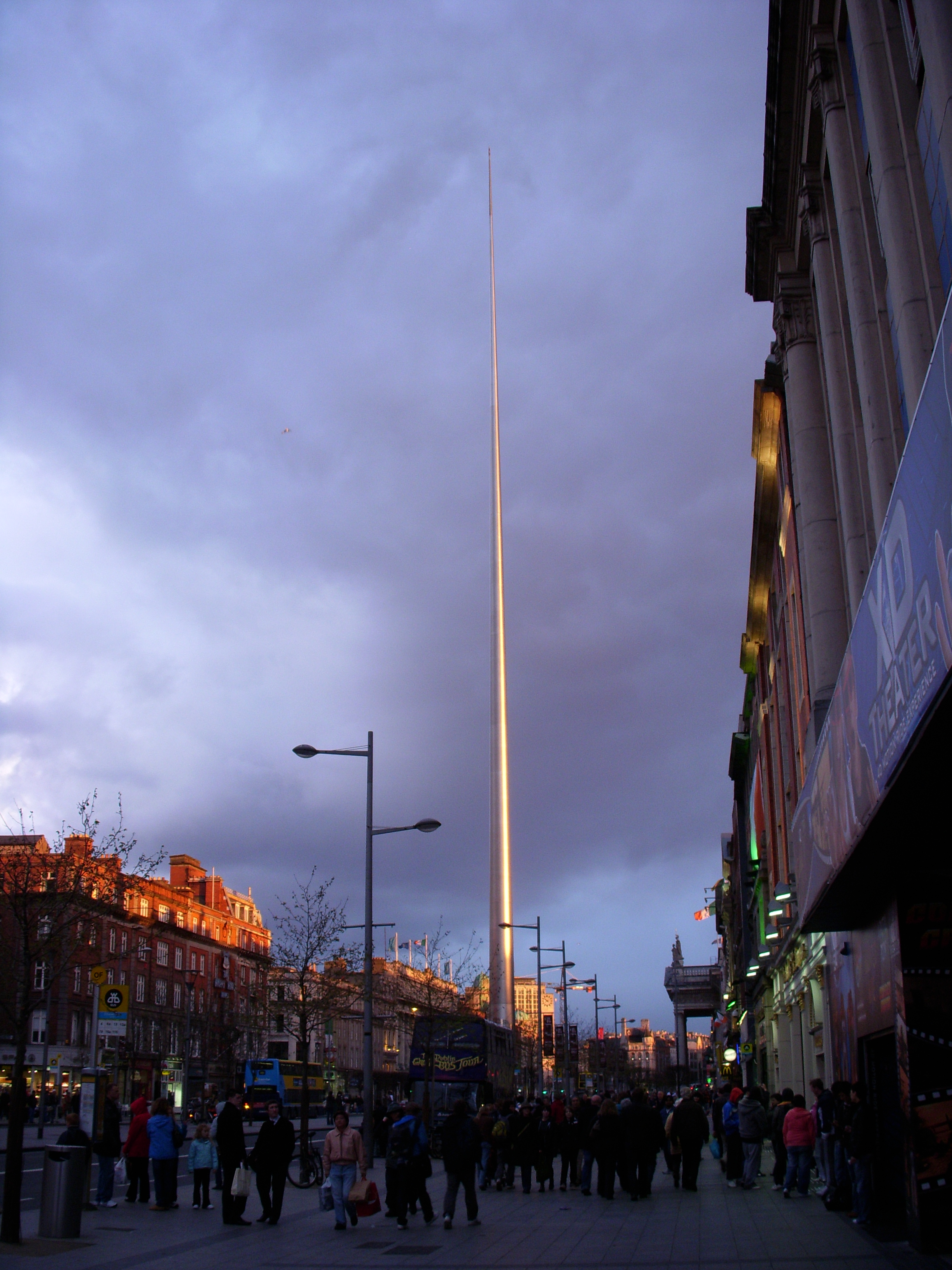 The Spire of Dublin, from O'Connell Street, facing southwards, in dusk. Cloudy sky, golden sun from right side, nice colors.